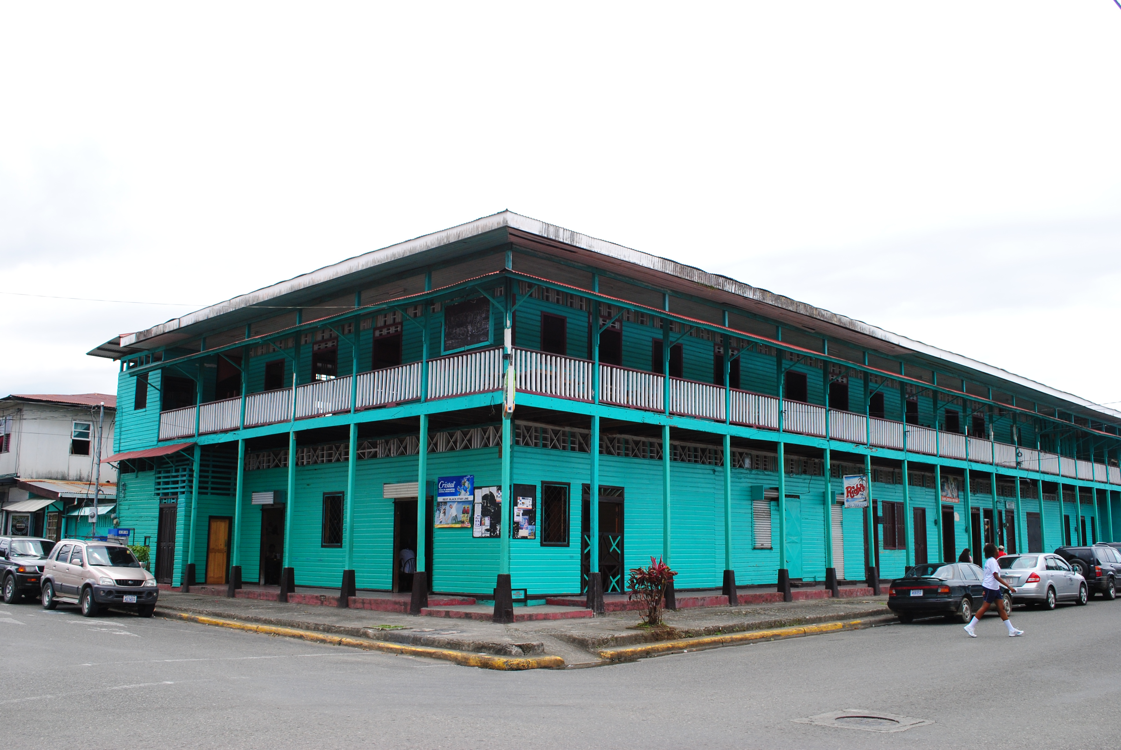 Marcus Garvey's Black Star Line building in Puerto Limón, Costa Rica.